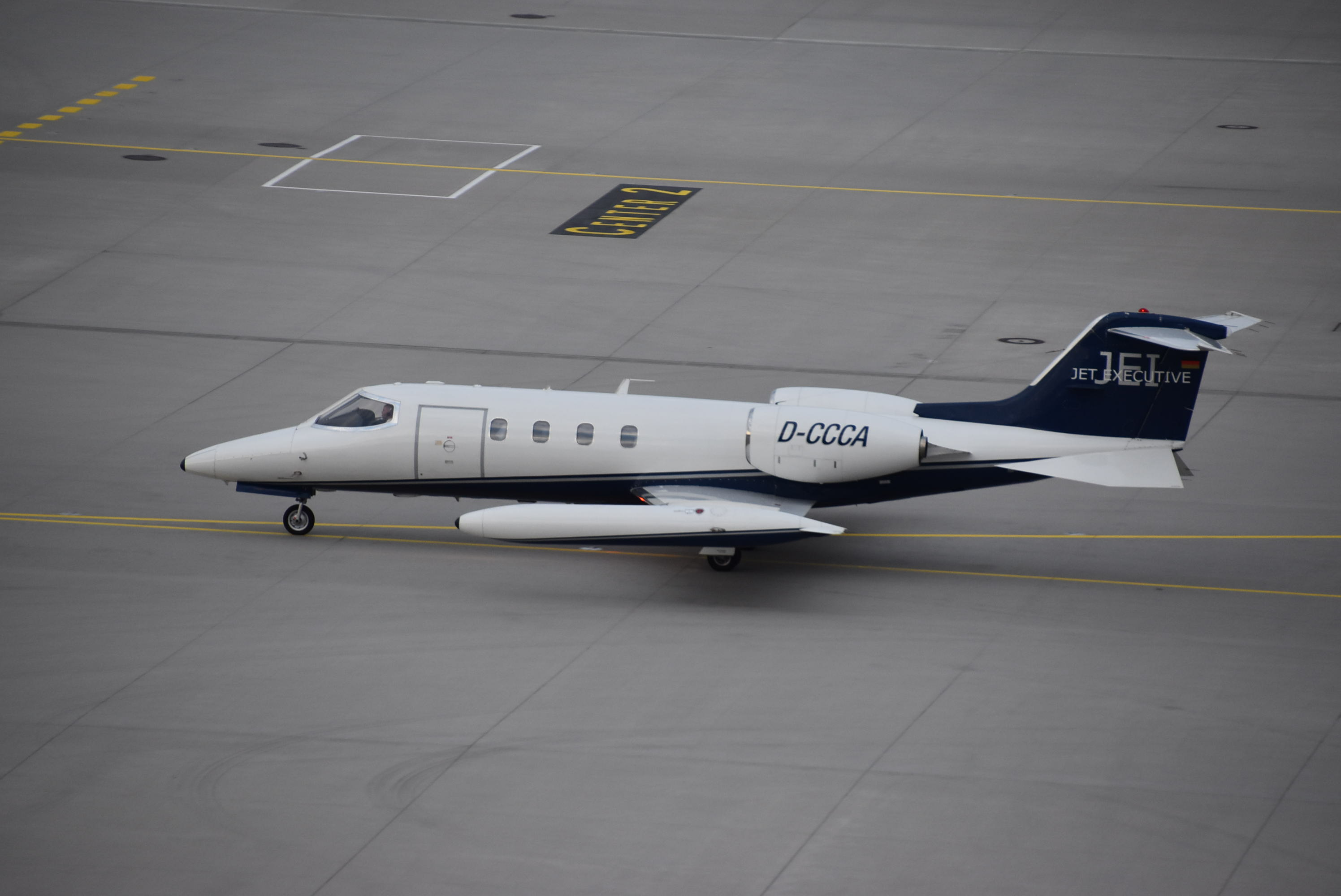 Learjet 35A of Jet Executive International at Munich-MUC, Germany, 19/04/16.